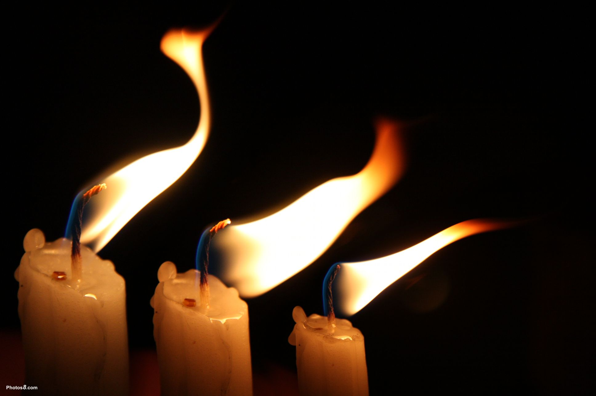 Candles Flame in the Wind by